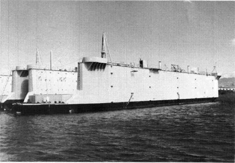 AFDL-23 date and place unknown. US Navy photo from "All Hands" magazine, July 1970